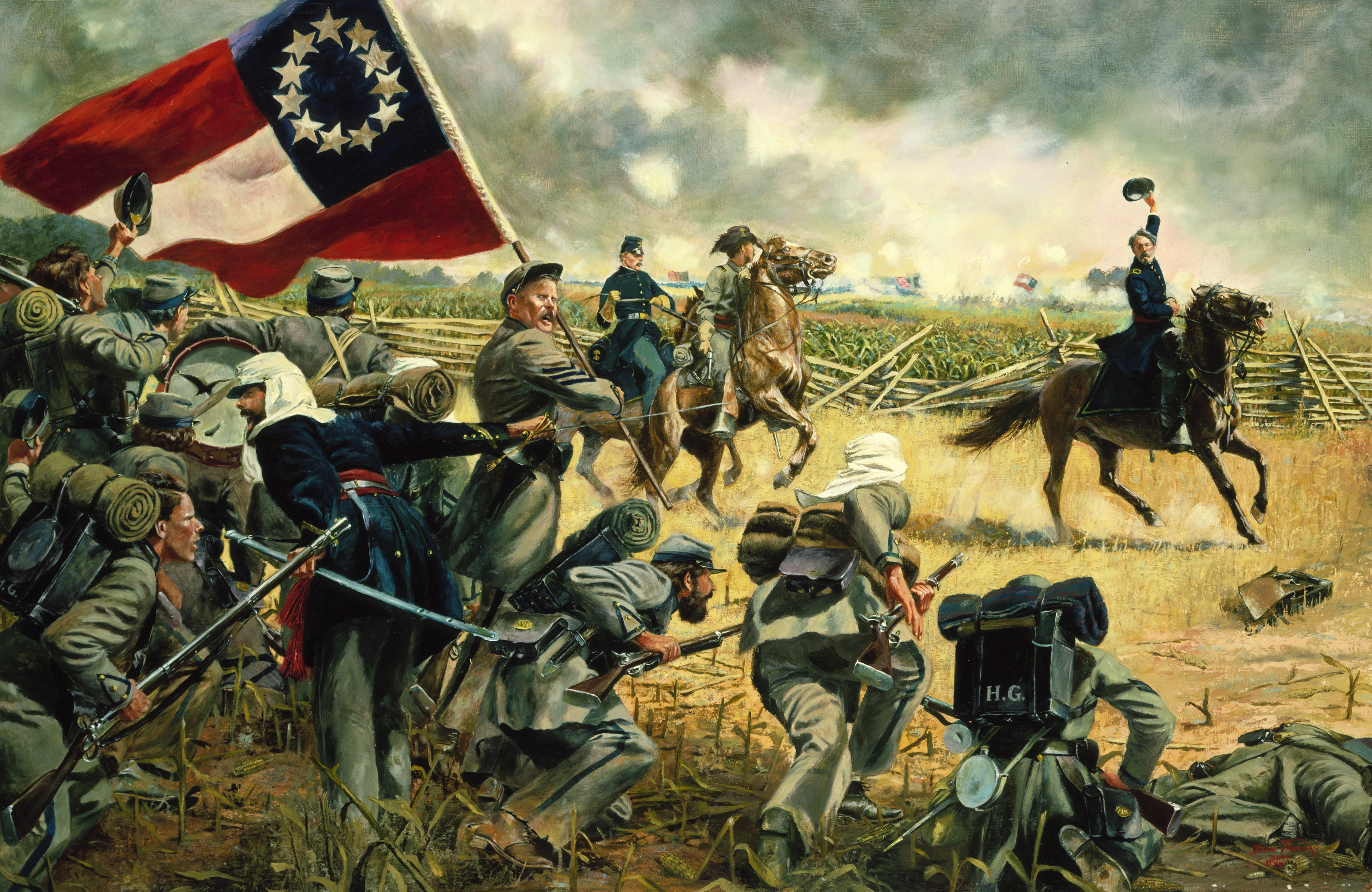 The Fourth Alabama by Don Troiani for the state of Alabama, 1861. Note: The Fourth Alabama (now a part of the 167th Infantry) at Manassas; Confederate Brig. Gen. Bernard Bee leads the 4th Alabama against Matthew's Hill. On the morning of July 21, 1861, the Union Army under the command of Brig. Gen. Irvin McDowell, in an effort to cripple the newly assembled Confederate Army at Manassas, Virginia, fired the opening shots of the first major battle of the Civil War. Both armies were largely made up of volunteer militia with regiments on both sides wearing blue and gray uniforms. The brunt of the Union attack fell on the Confederate left flank. Confederate Brig. Gen. Bernard Bee, having recently resigned from the United States Army and still wearing his blue uniform, realized that the army's left flank was seriously exposed. Bee ordered the Fourth Alabama to advance rapidly in order to plug the gap in the Confederate line. For over an hour, the Fourth Alabama held its position and repulsed several Union regiments. The gallant stand of the Fourth Alabama stalled the Union advance and gave the Confederate forces more time to regroup. The regiment played a prominent part in the fighting all day and contributed to the Confederate victory. The Battle of First Manassas proved to both sides that the Civil War would be a bitterly contested struggle. The Fourth Alabama went on to fight in every major battle in the Eastern Theater of the Civil War and never surrendered its colors. The heritage and traditions of the Fourth Alabama are carried on by the 1st Battalion, 167th Infantry, Alabama Army National Guard.